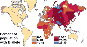 based on diagrams from